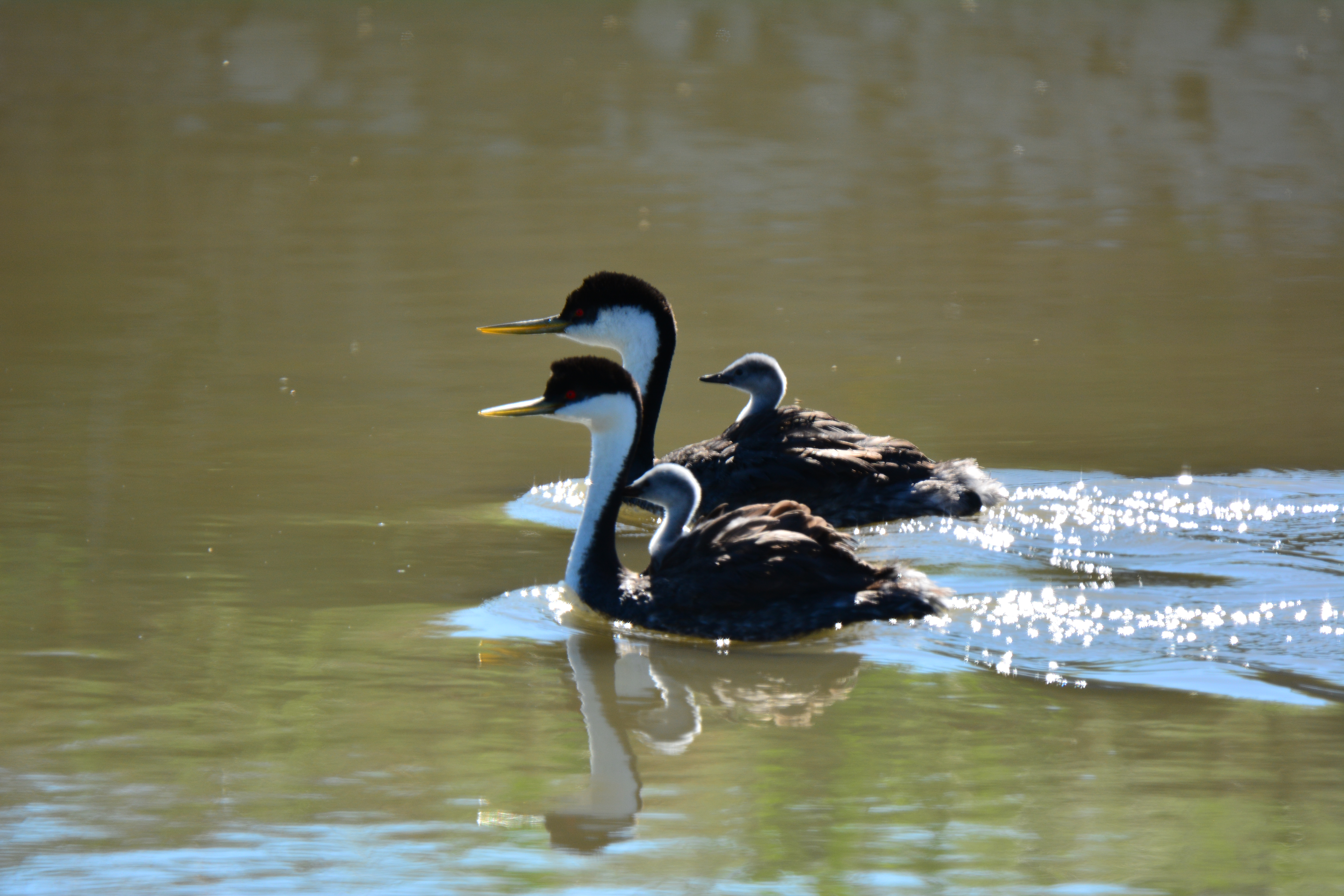 Category: Bird Babies - 2nd place Photo Credit: R. Welker